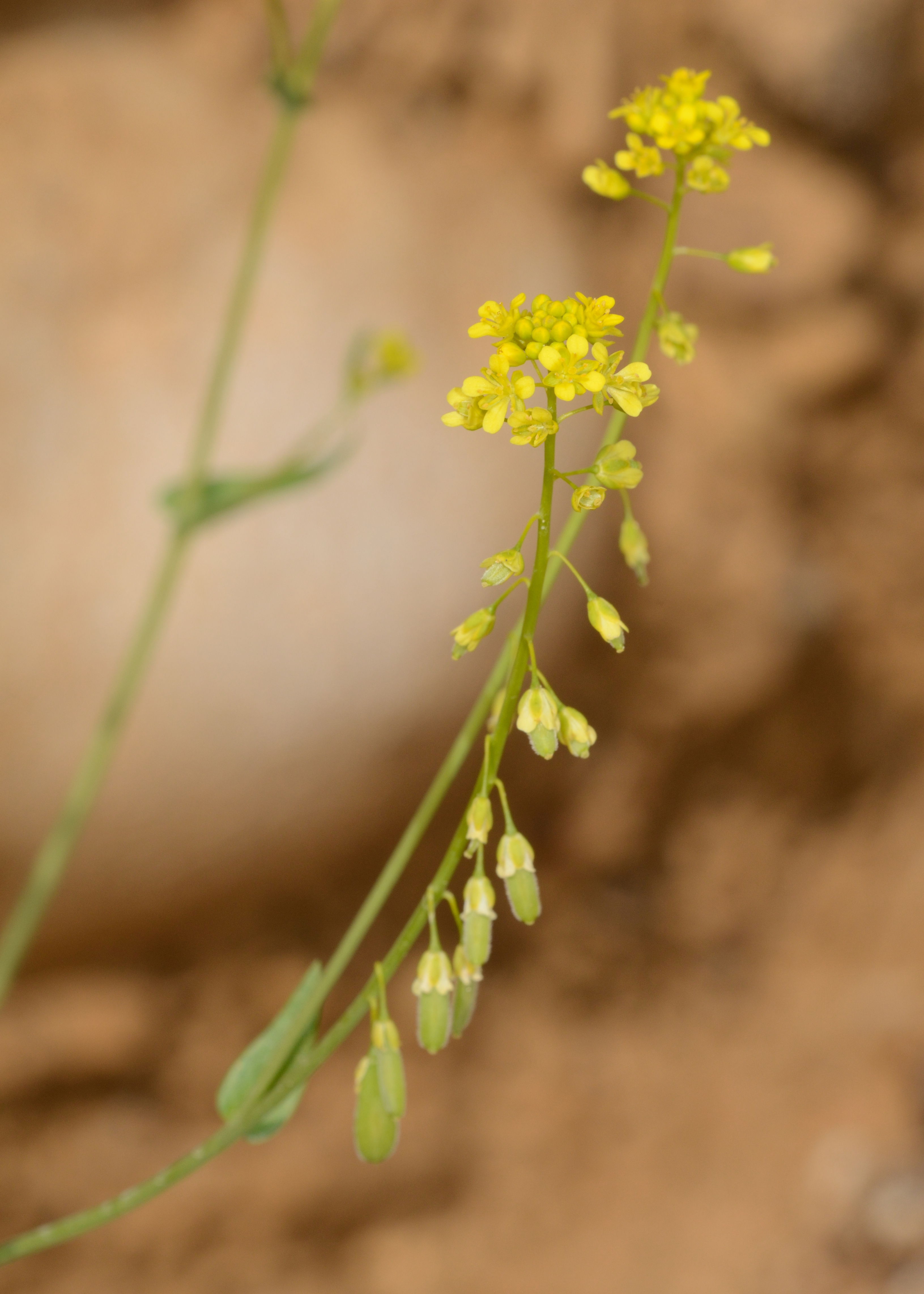 Isatis microcarpa J.Gay ex Boiss., Nahal Paran, Arava Valley, Israel, March 16, 2014.